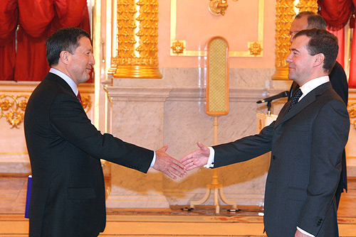 THE KREMLIN, MOSCOW. Presentation ceremony of foreign ambassadors’ letters of credentials. Ambassador of the Republic of Kazakhstan Adilbek Dzhaksybekov presents his letter of credentials to the President.